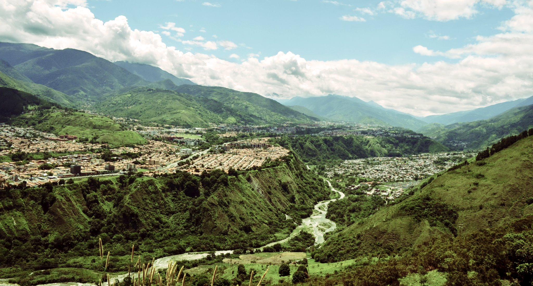 Photo of Merida, viewed from El Morro road. taken on 2012.